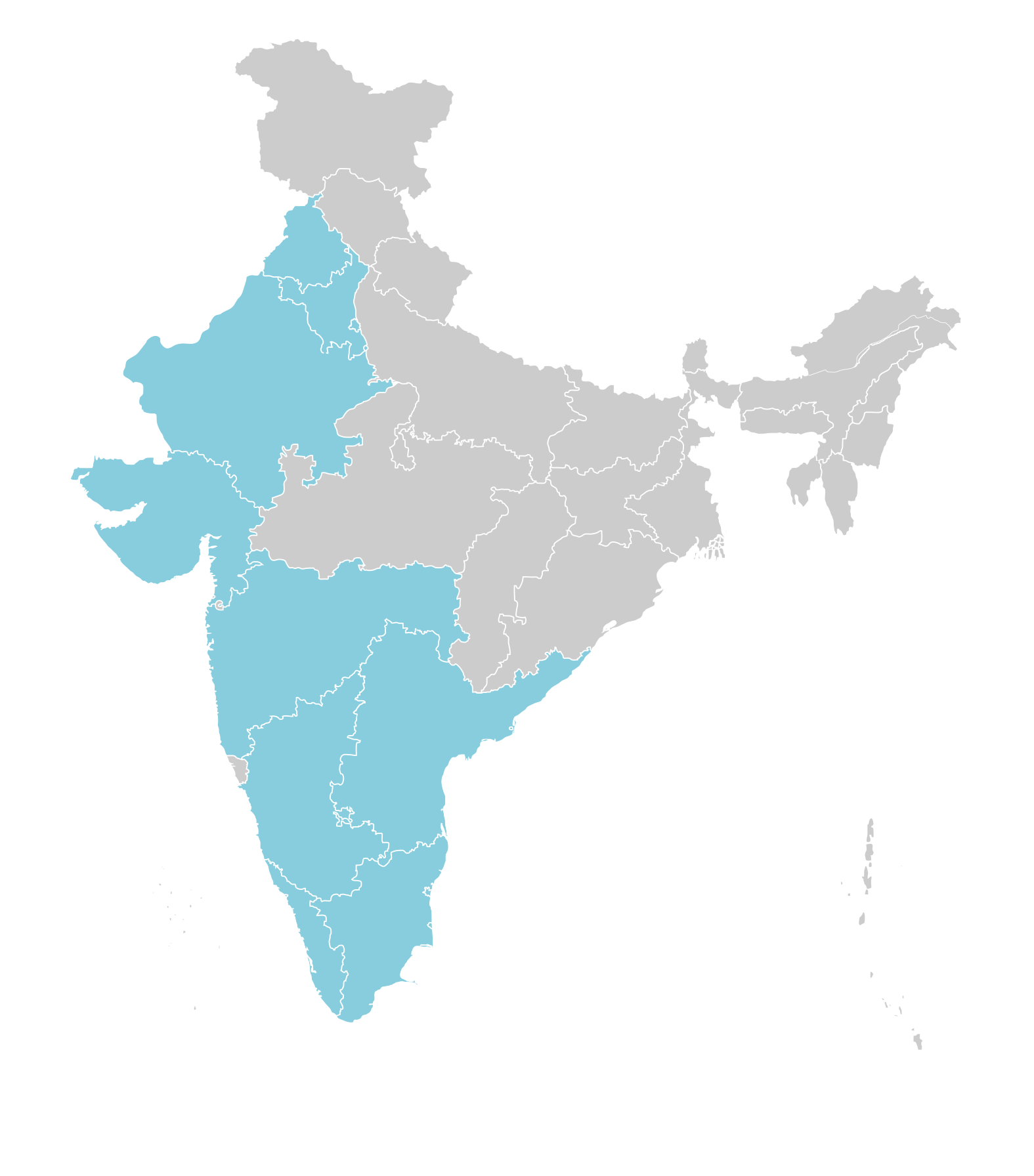 Data source